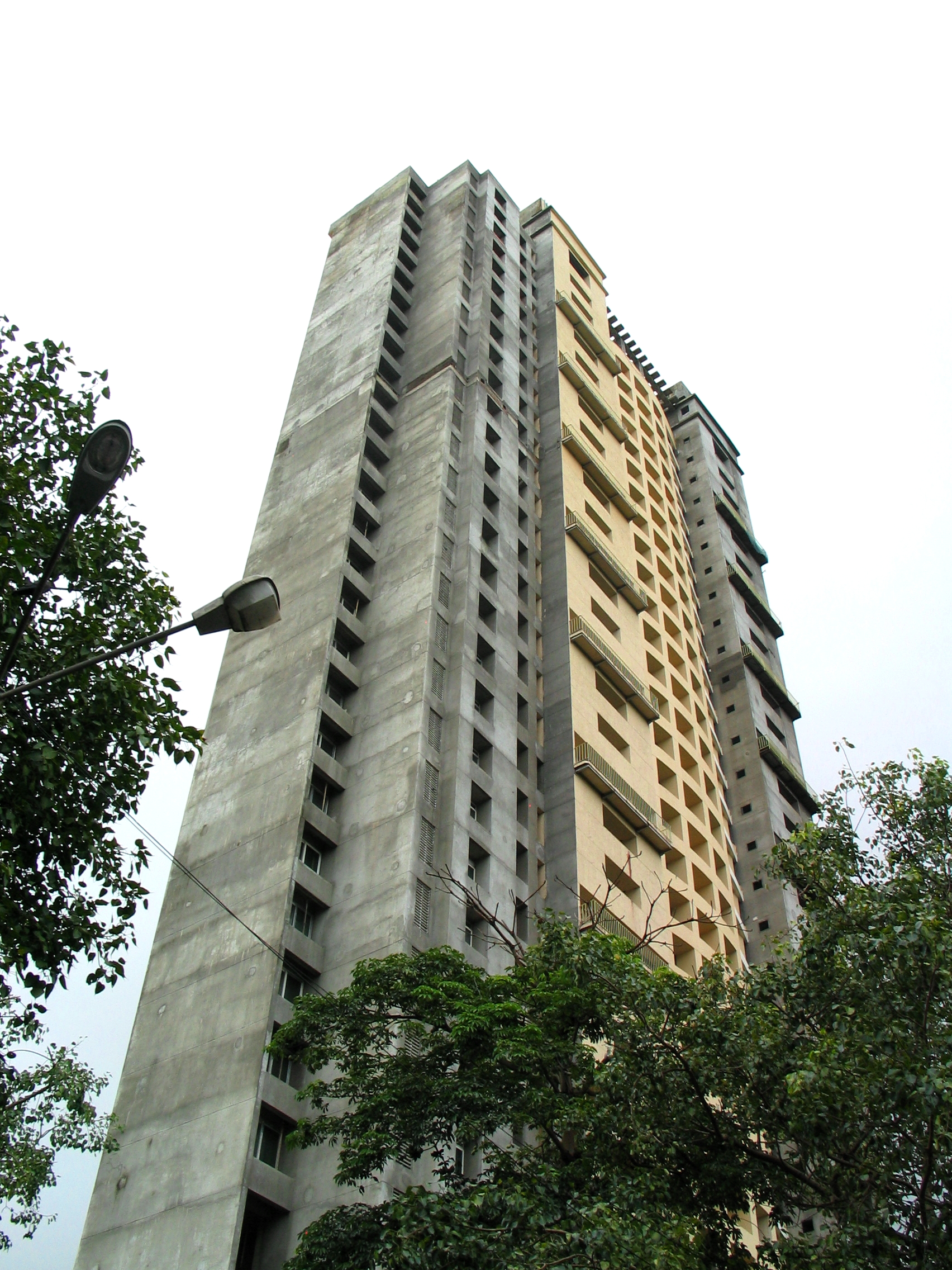 Arghya Mukherjee, Own Pictures